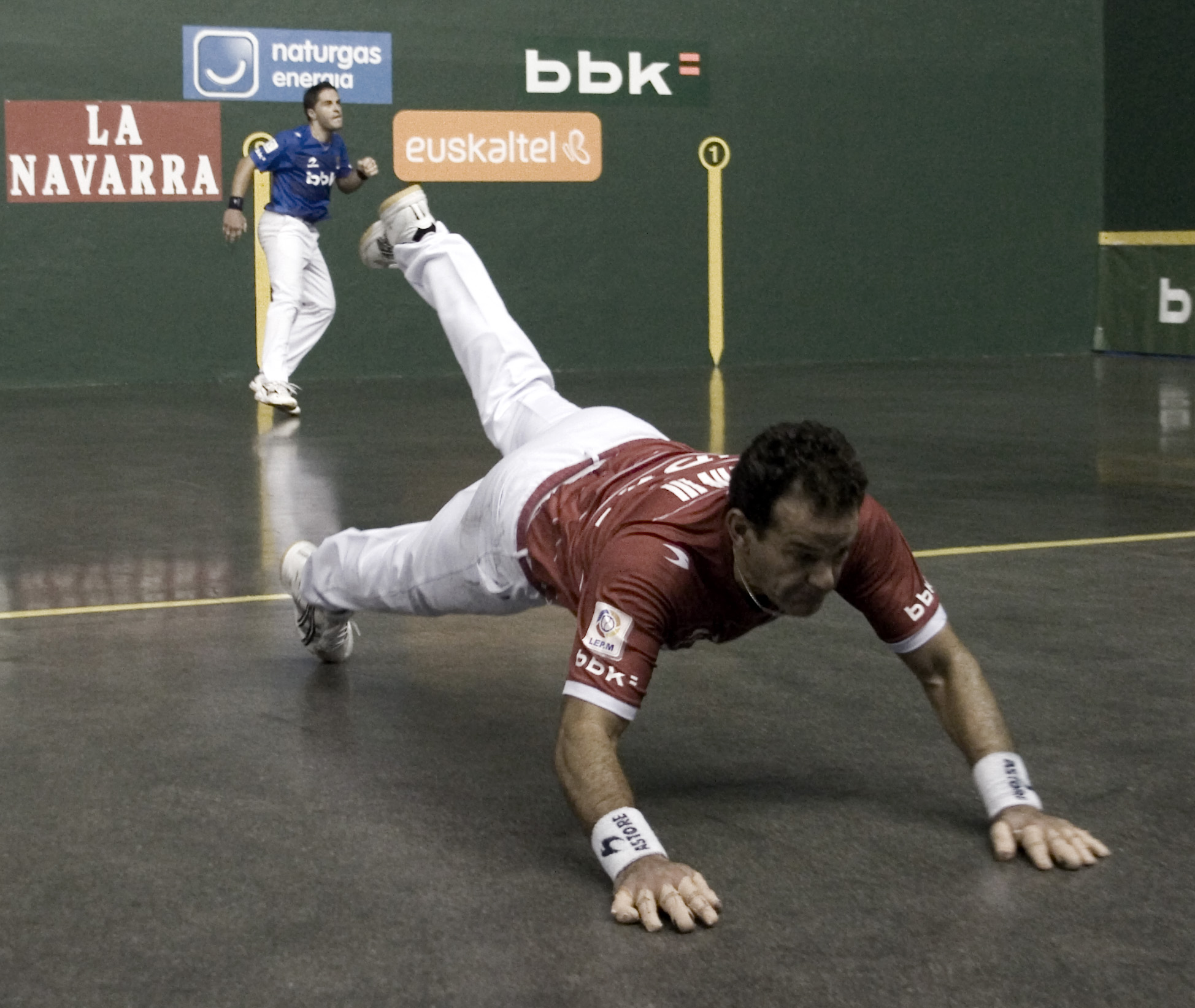 Titin III player of Basque pelota in red shirt. Behind him Olaizola II in blue sirt